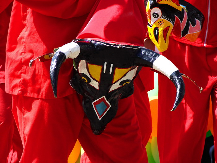 Dancing Devils of Yare